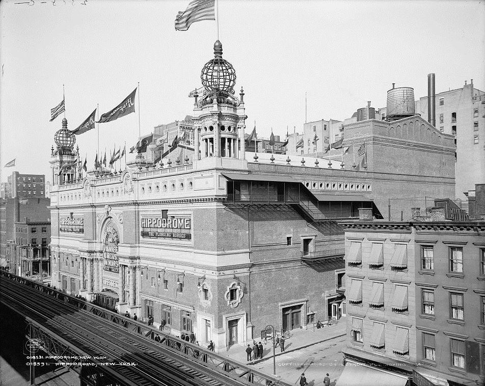 The New York Hippodrome in 1905